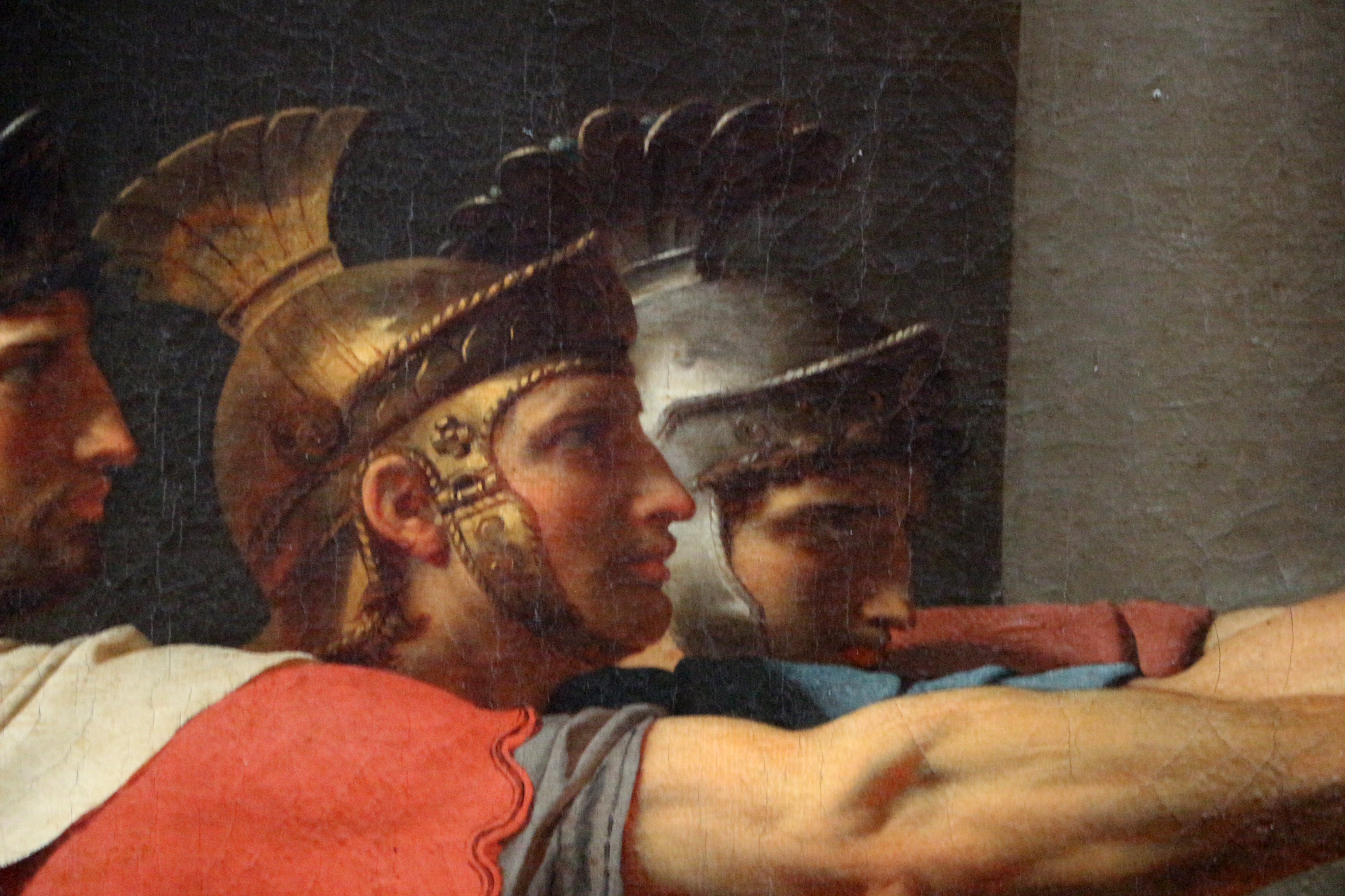 Paintings by Jacques-Louis David in the Louvre